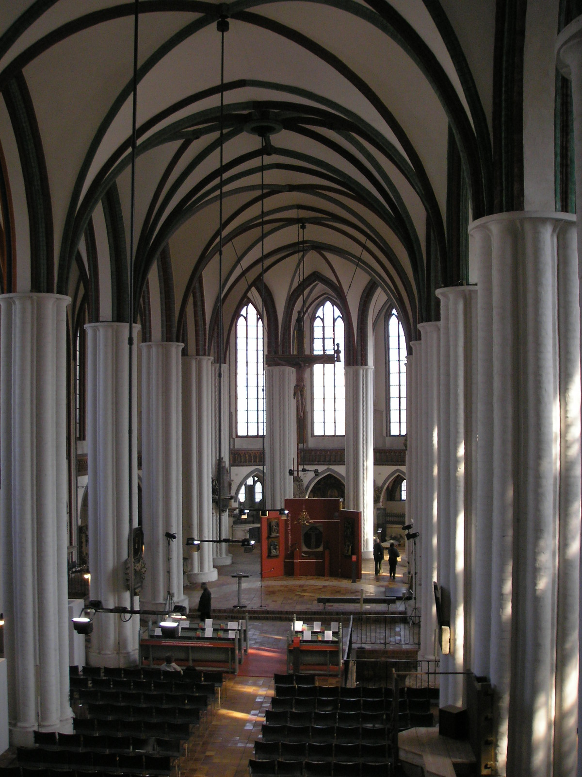 Image the remains of a stained-glass window of the Nikolaikirche, Berlin